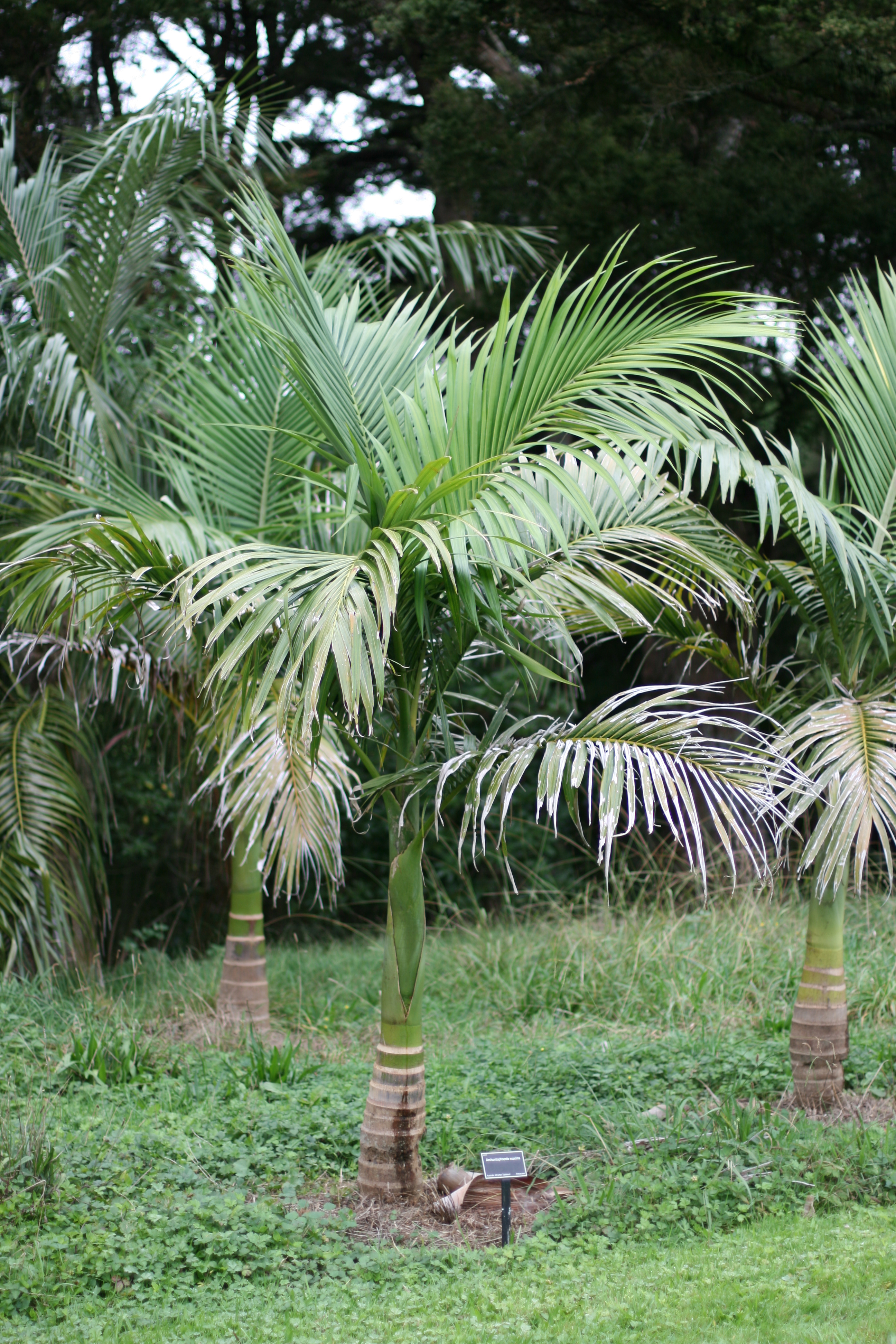 Young specimen of Archontophoenix maxima, the Walsh River Palm, growing in cultivation at Auckland, New Zealand. This the largest species of the Archontophoenix genus. It is endemic to Queensland, Australia. This robust palm grows in rainforest in altitudes of between 800 and 1200 metres on the Walsh River and the adjacent Mt Haig Range in the Atherton Tablelands at approximately 17° South latitude.